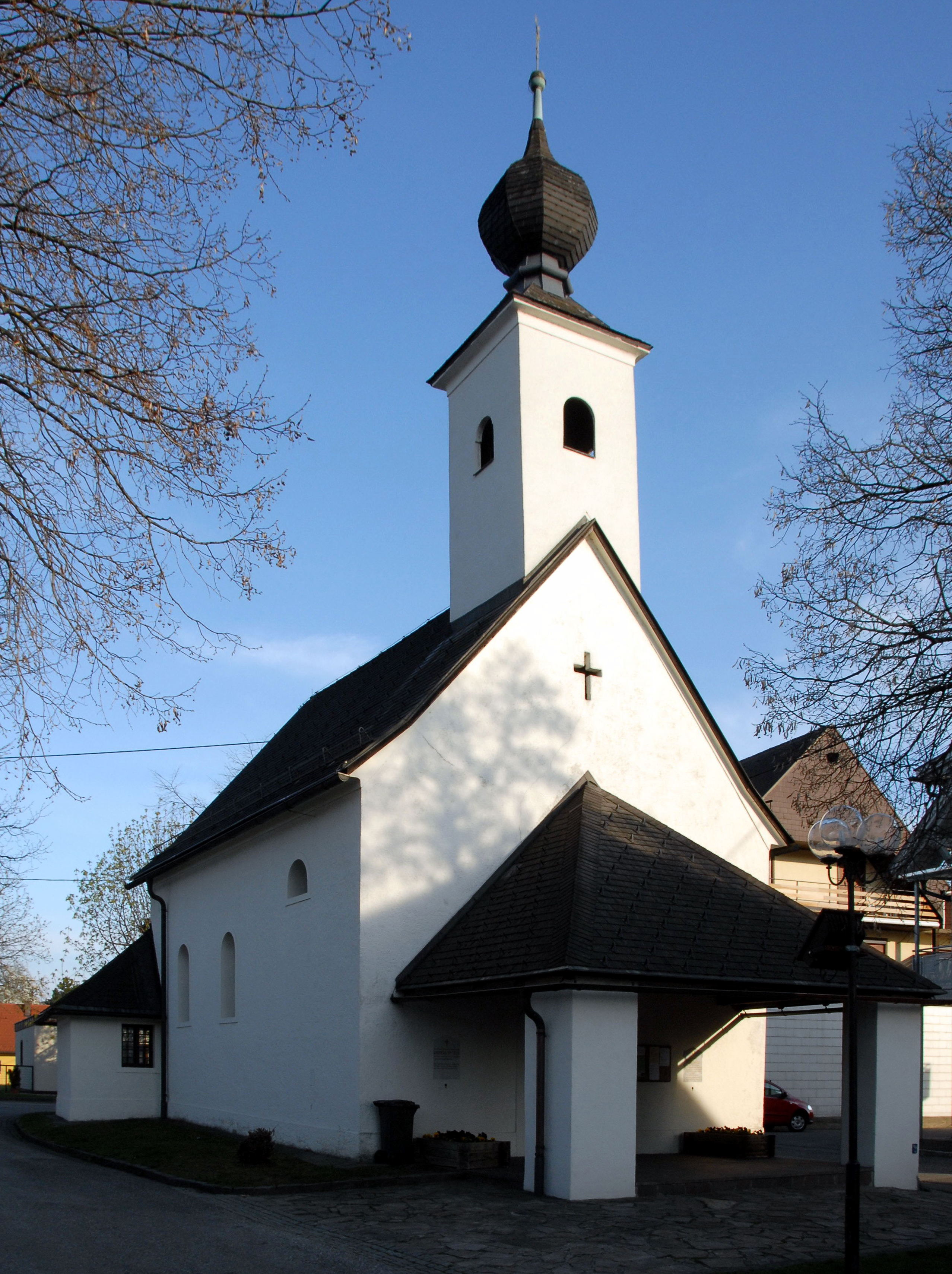 Subsidiary church Saint Mary Magdalene in Sankt Magdalen, quarter Seebach, statuatary city Villach, Carinthia, Austria, EU